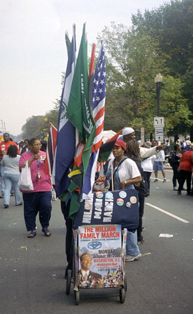 SI Neg. 2001-13657.11. Date: 10/16/2000...Million Family March. Crowds in the vending area on Constitution Avenue in front of the National Museum of American History ..Credit: Jim Wallace (Smithsonian Institution)